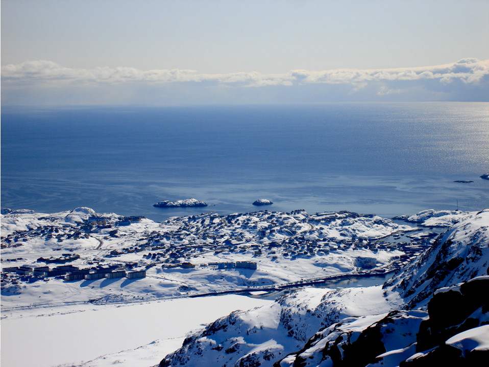 Sisimiut as seen from the massif between Palasip Qaqqaa (Præstefjeldet) and Majoriaq, north of town. Akia, the new part of town, is off to the right outside the picture frame.